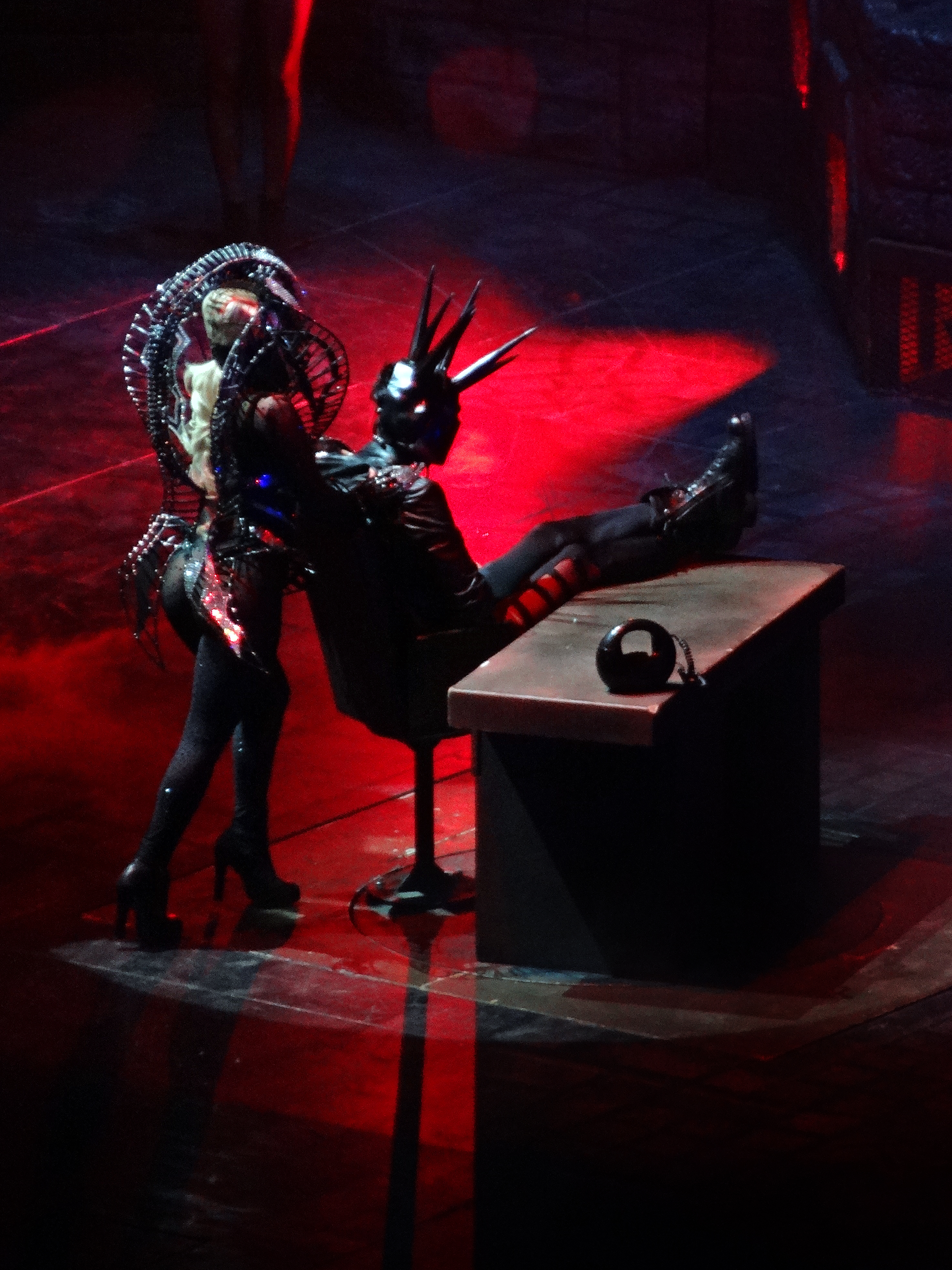 Lady Gaga performing "Government Hooker" on The Born This Way Ball Tour.